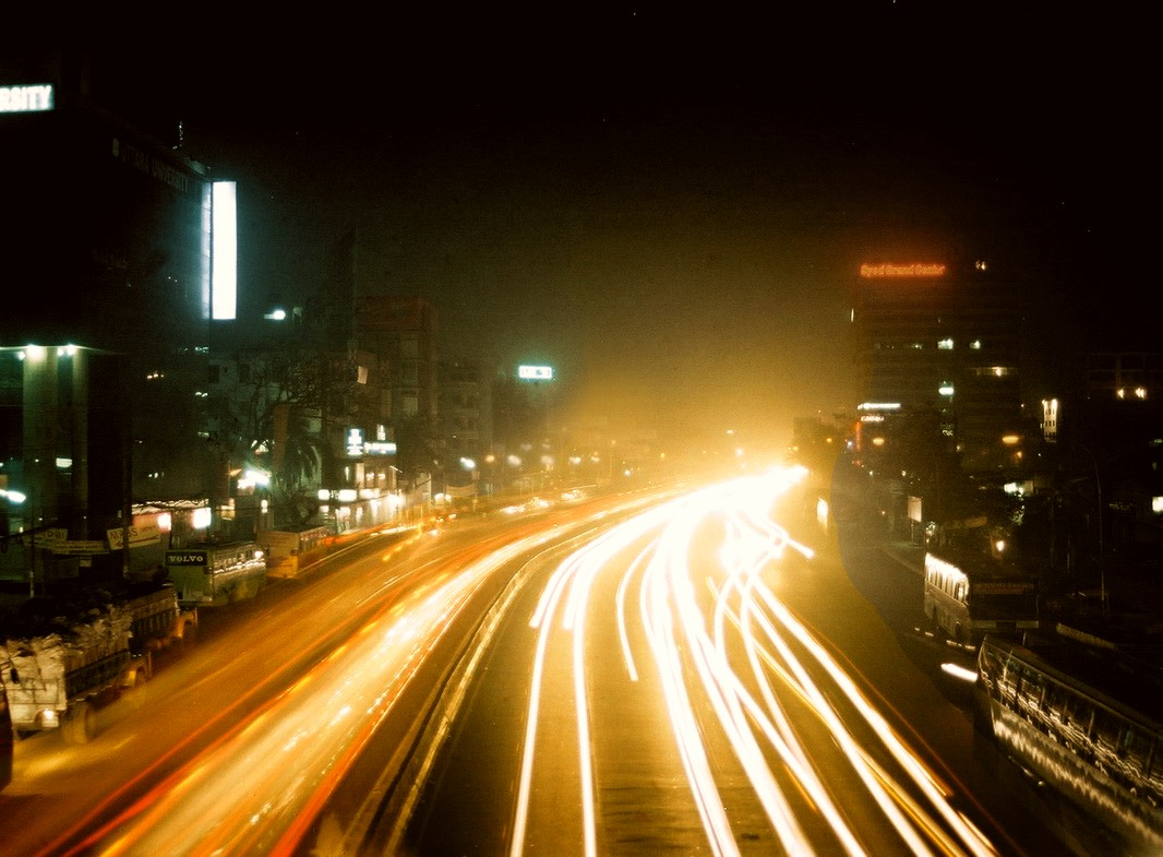 View of Uttara at night